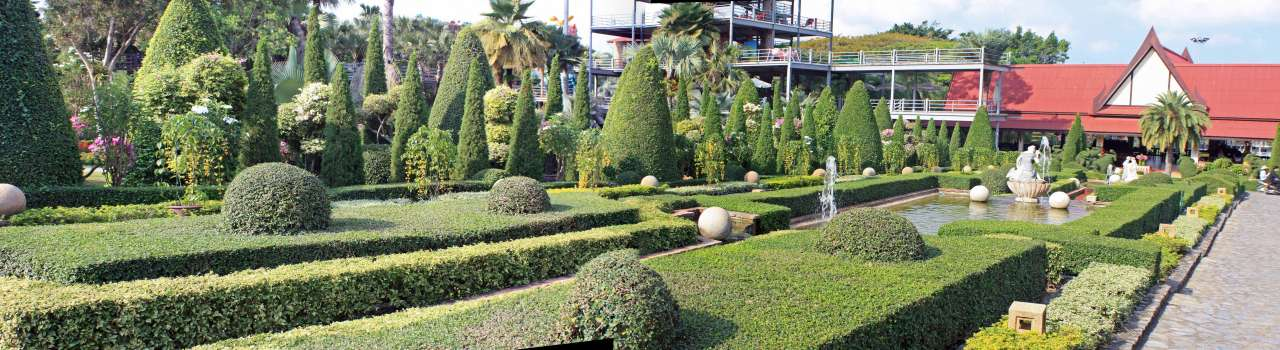 Nong Nooch botanical garden, European garden, Thailand